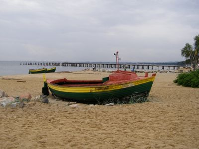 Orłowo, part of Gdynia, Poland